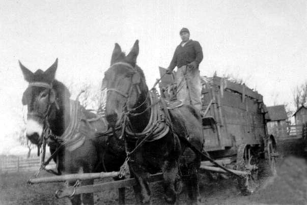 Iowa farmer driving mule-drawn wagon